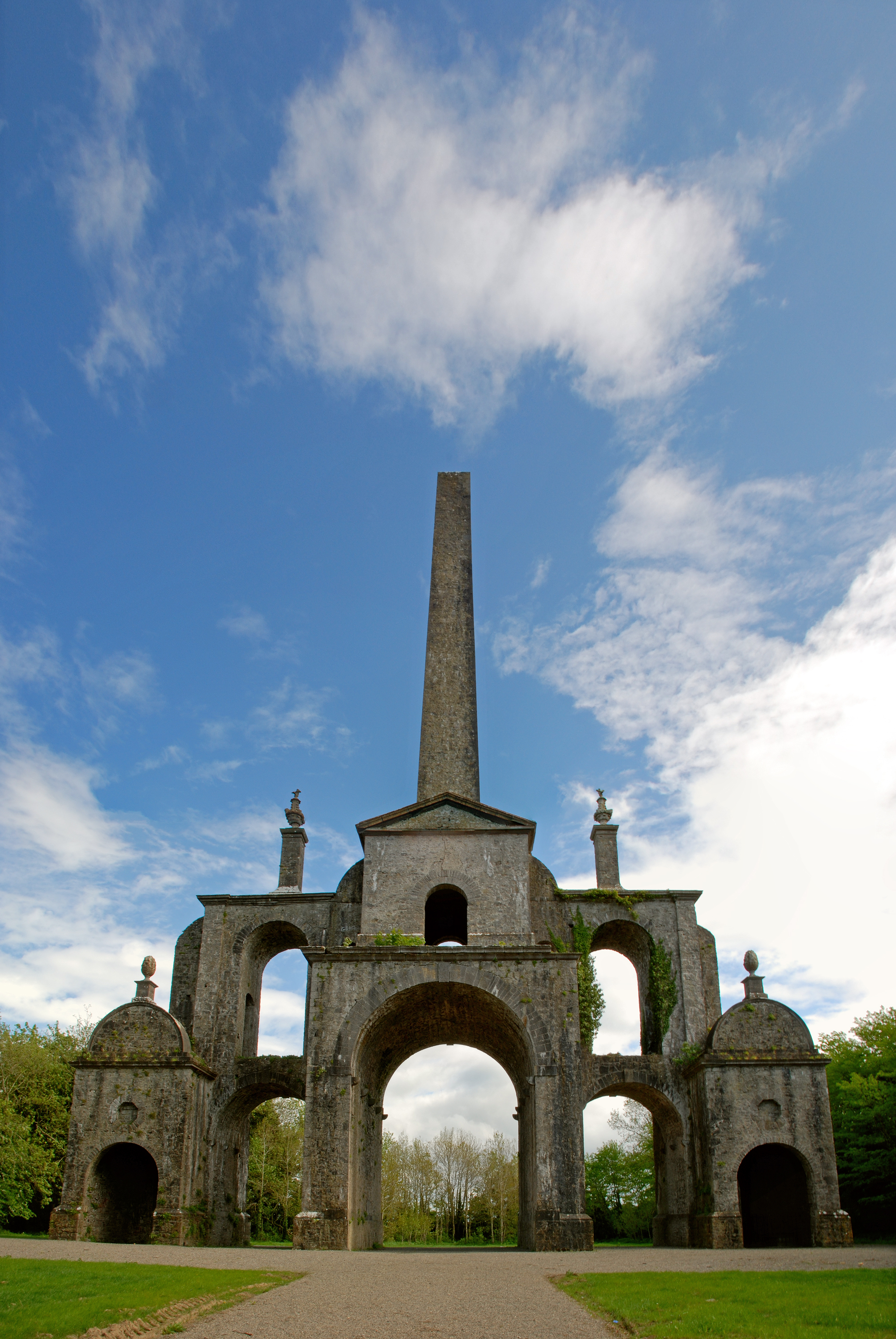 Two shots, stitched in Photoshop.